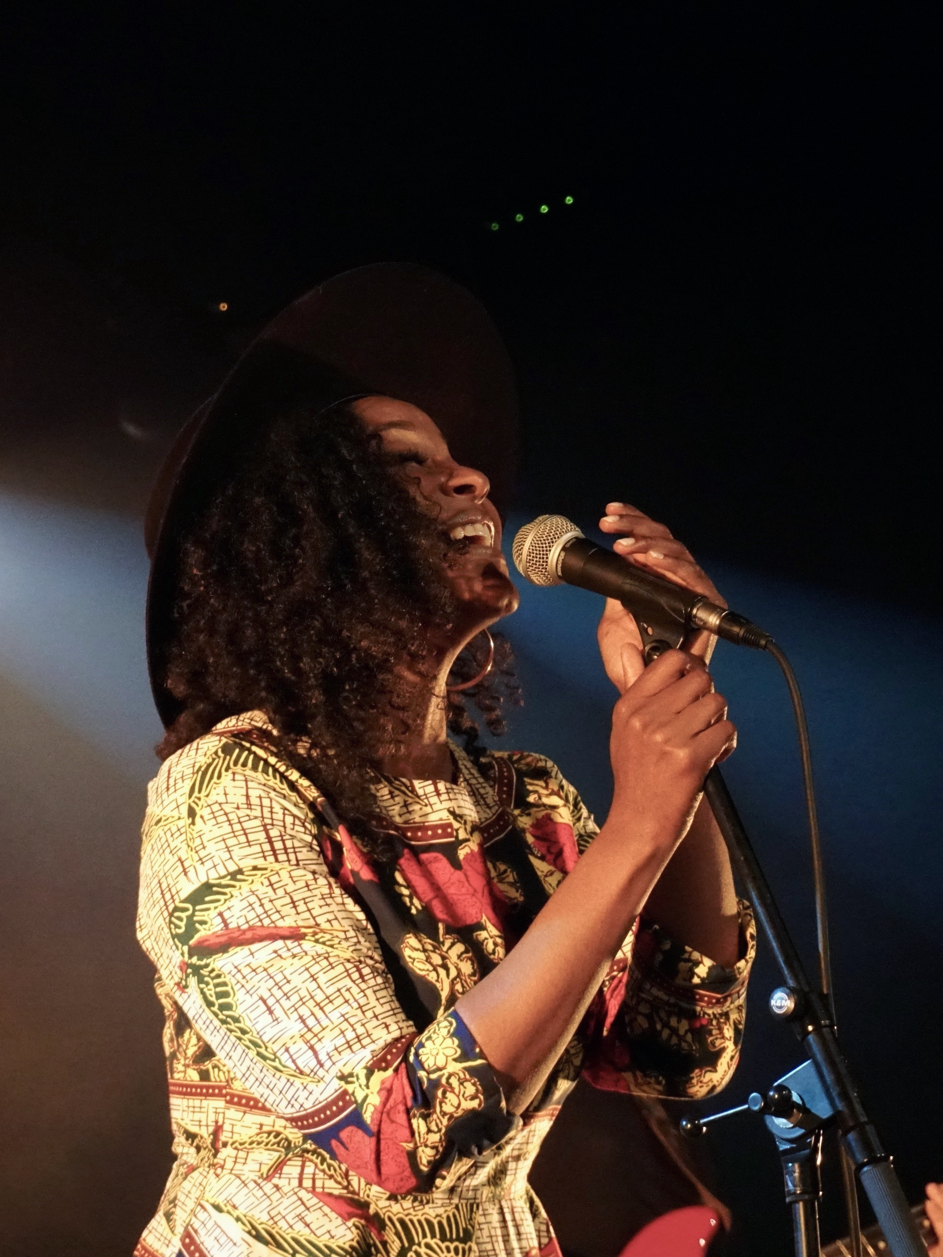 Tanika Charles performing at Le Gueulard Plus in Nilvange, France. Photo taken by Michael Warren, October 6, 2018.